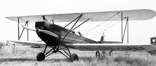 Catalog #: 00063902 Manufacturer: Command-Aire Designation: 3C3-T Official Nickname: Notes: Repository: San Diego Air and Space Museum Archive